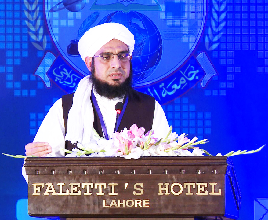 Mufti Hussain Khalil Khail